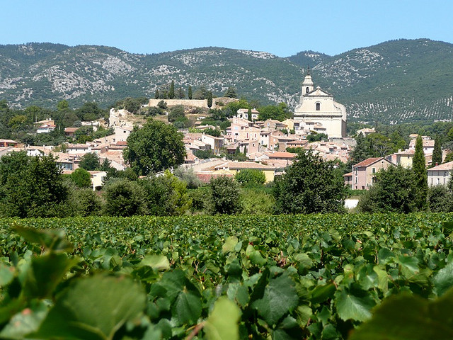 Bedoin and his vineyard